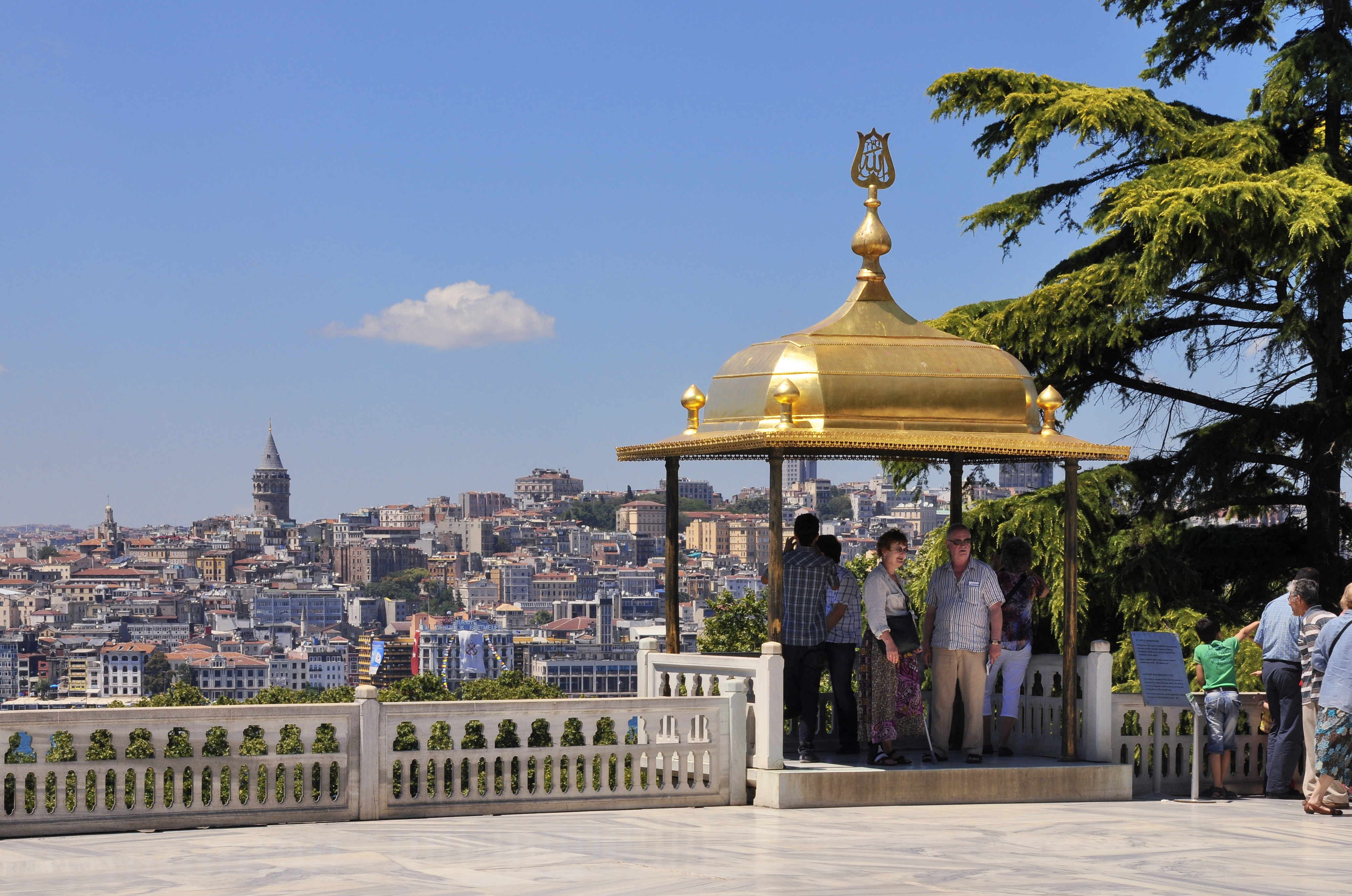 Iftar bower (İftariye Köşkü) in the Fourth Courtyard of the Topkapı Palace in Istanbul, Turkey.